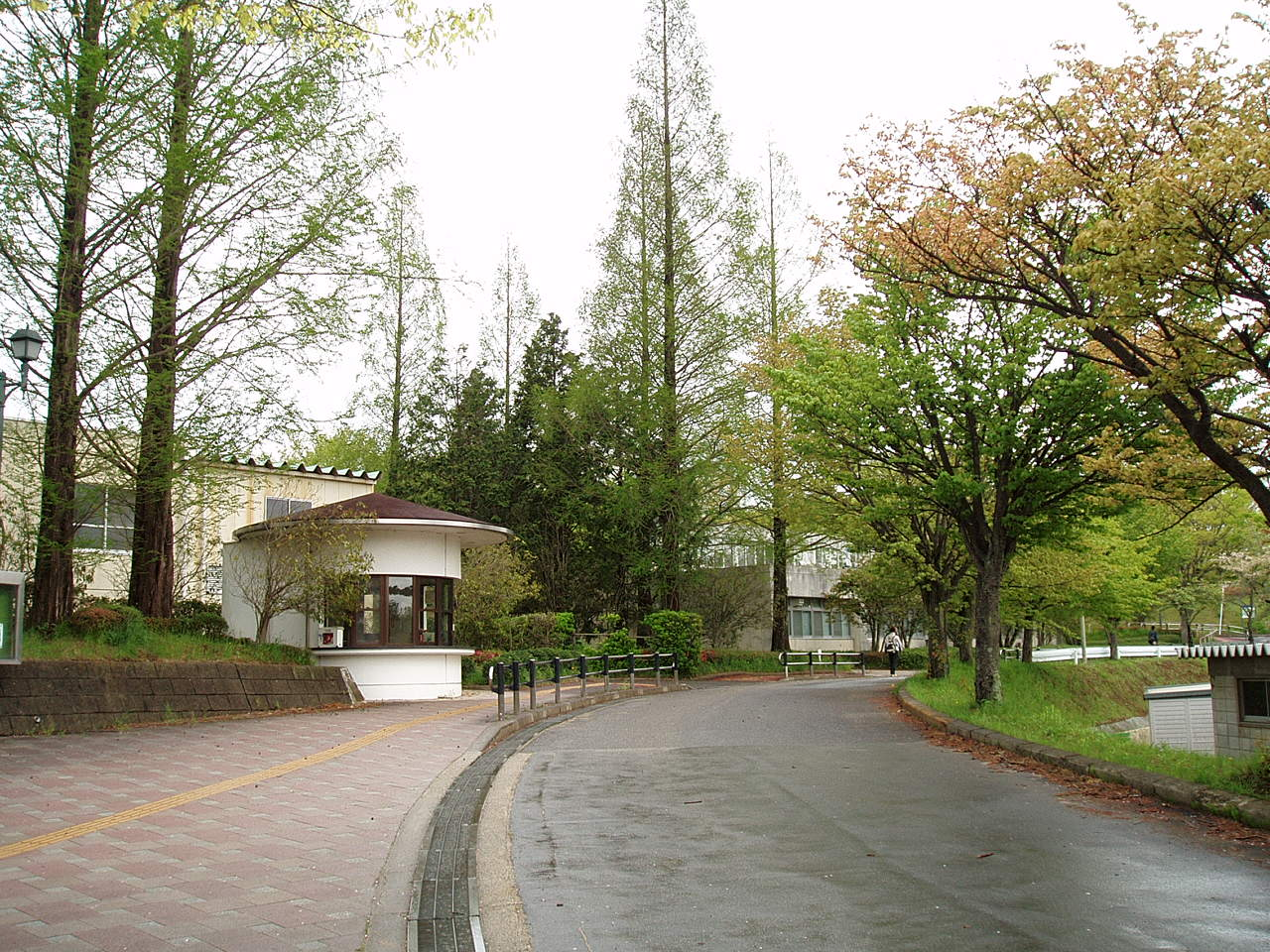 The west gate of Fukushima University